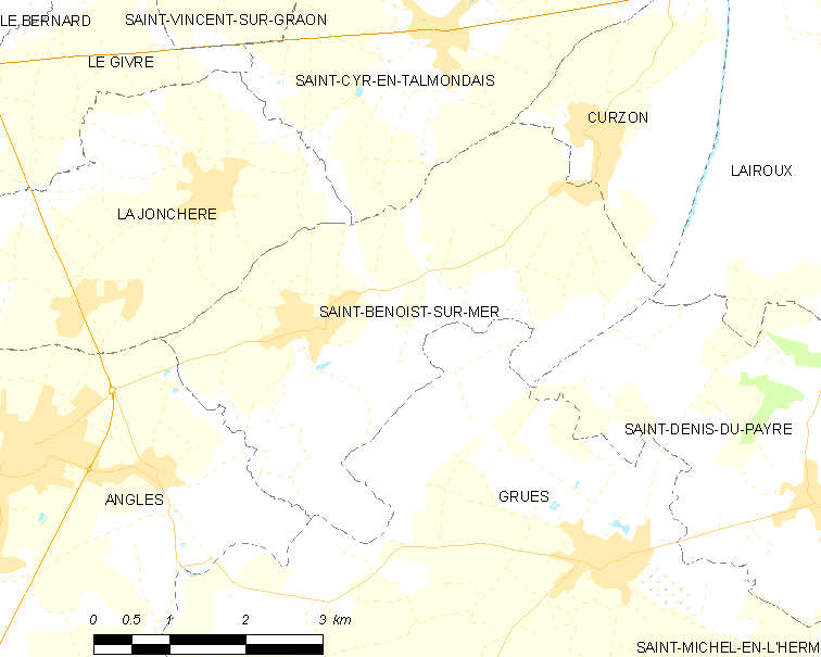 Map of French municipality Saint-Benoist-sur-Mer